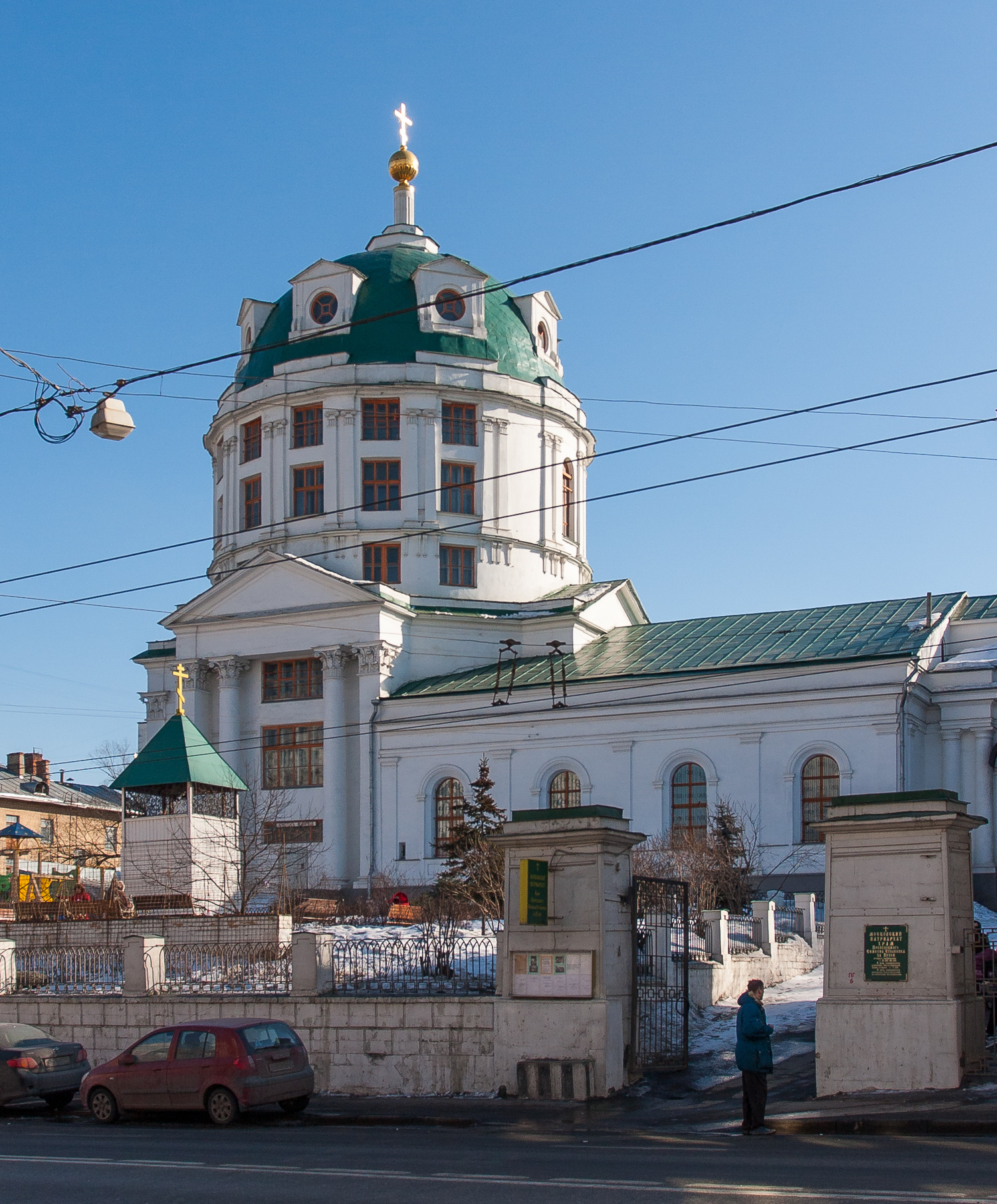 Church of Simeon Stylites / Moscow, Russia